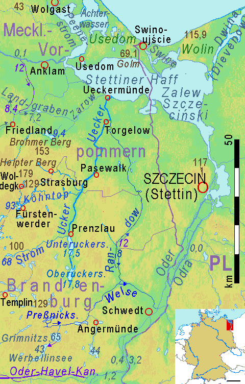 Ucker/Uecker, Randow and Welse in a relief map of Mecklenburg-Western Pomerania: Brown figures = soil above sea level in meters (measure at the point, name above or below) dark blue figures = water level above sea level in meters dark blue arrows = direction of water flow, emphasized rivers drawn in stronger colours, lilac = water bodies crossing divides